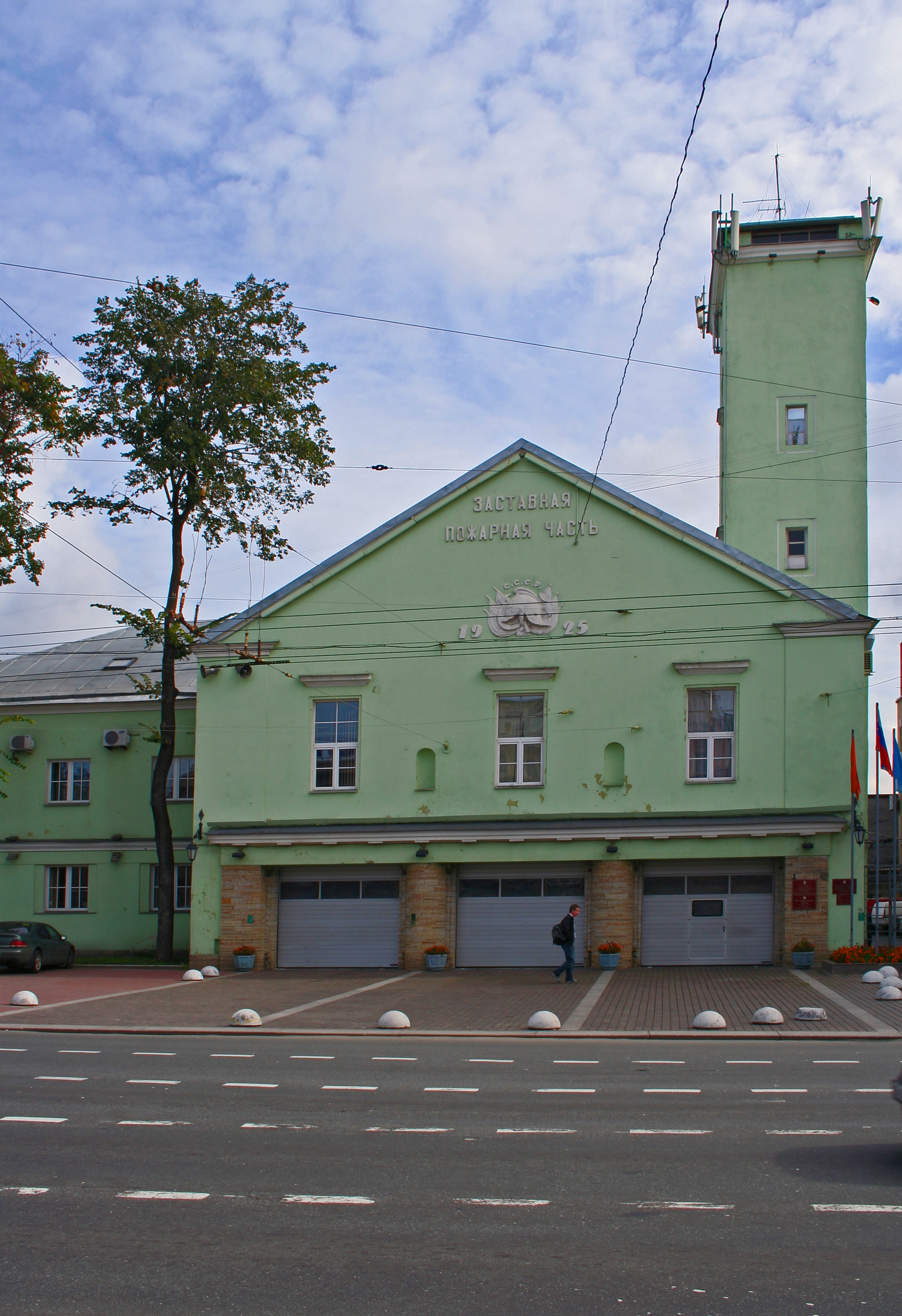 A 1925 built fire station in Saint Petersburg, near the Moscow Gate.